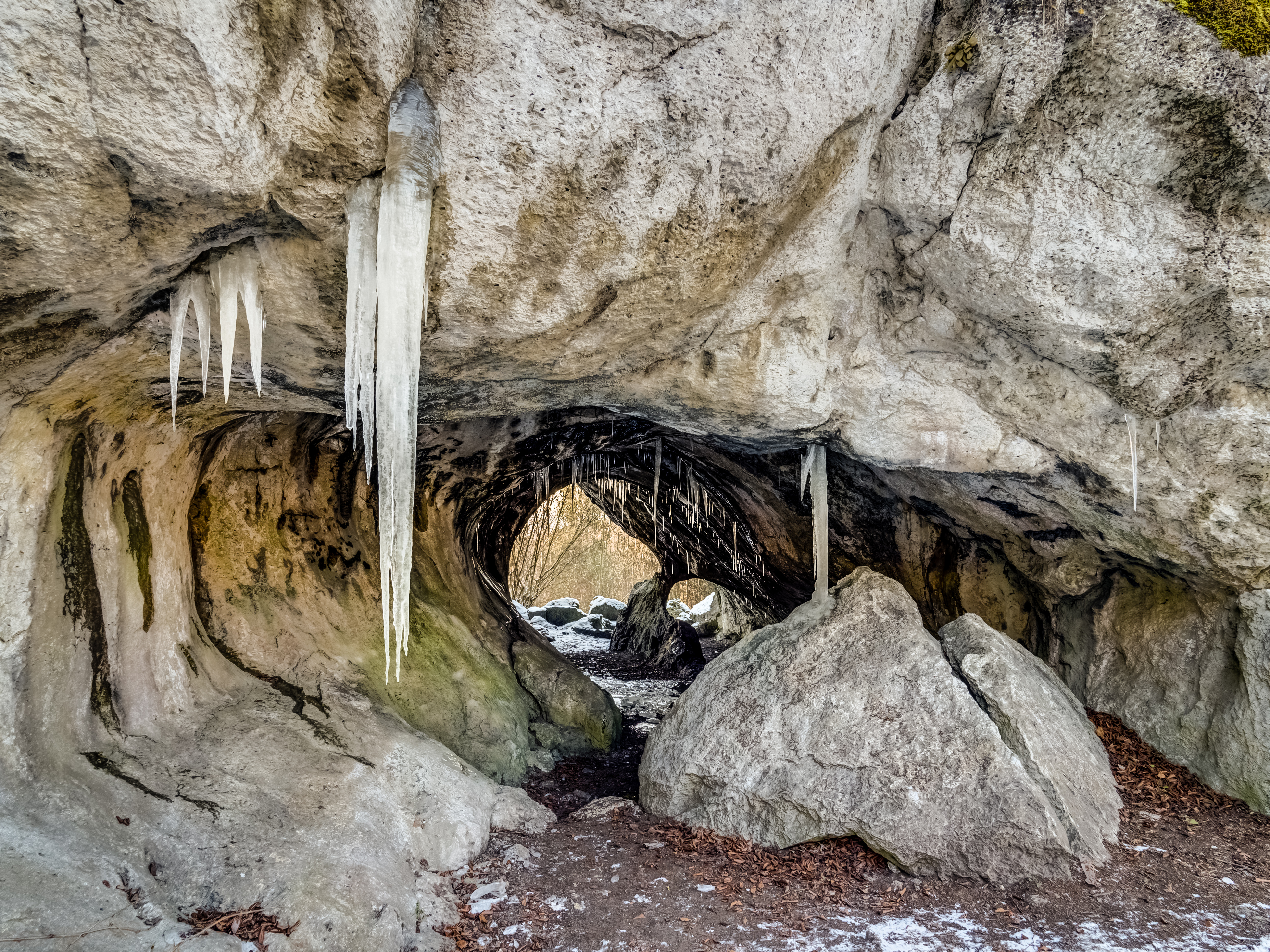 Quackenschloß cave near Engelhardsberg in Franconian Switzerland